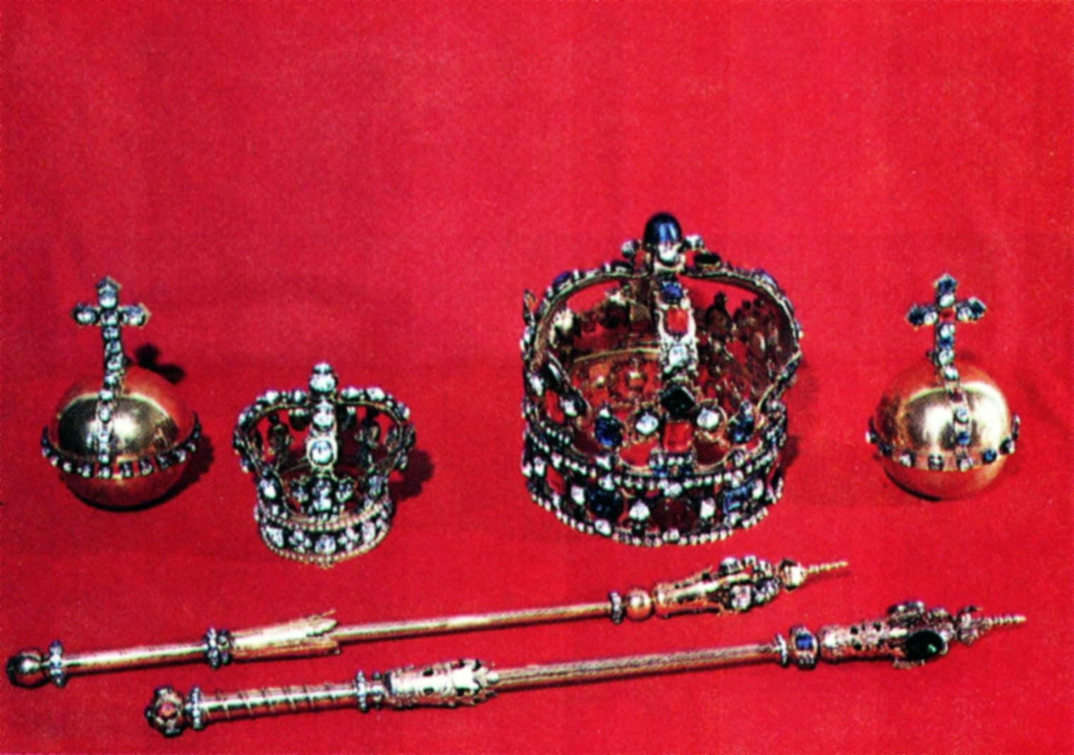 Photograph